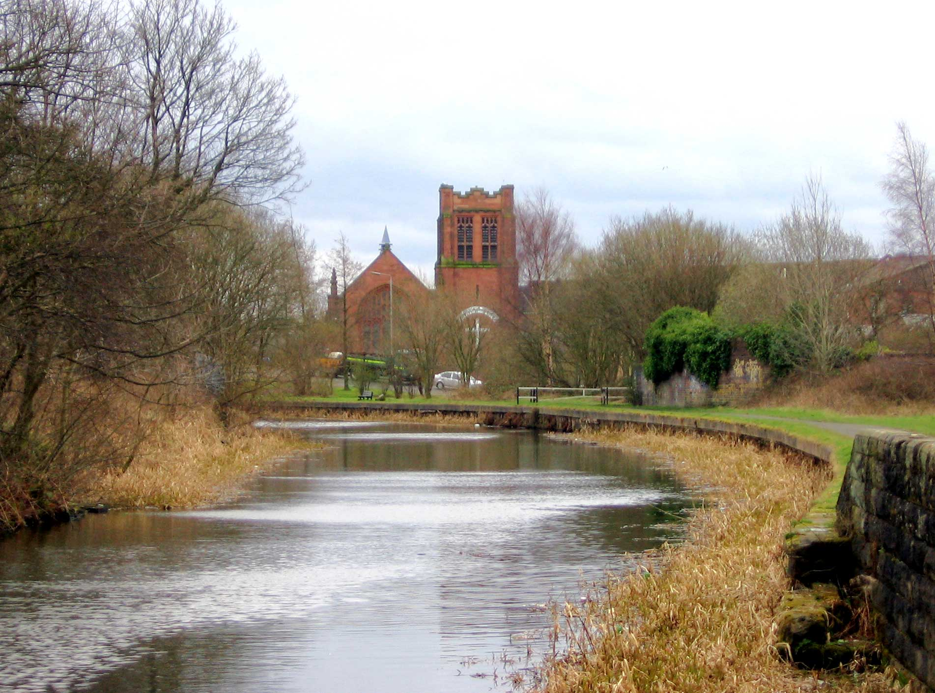 Ruchill Church, Glasgow, seen from the Forth and Clyde Canal. photograph taken on 5 April 2006 by User:Dave souza. Any re-use to contain this licence notice and to attribute the work to User:Dave souza at Wikipedia.